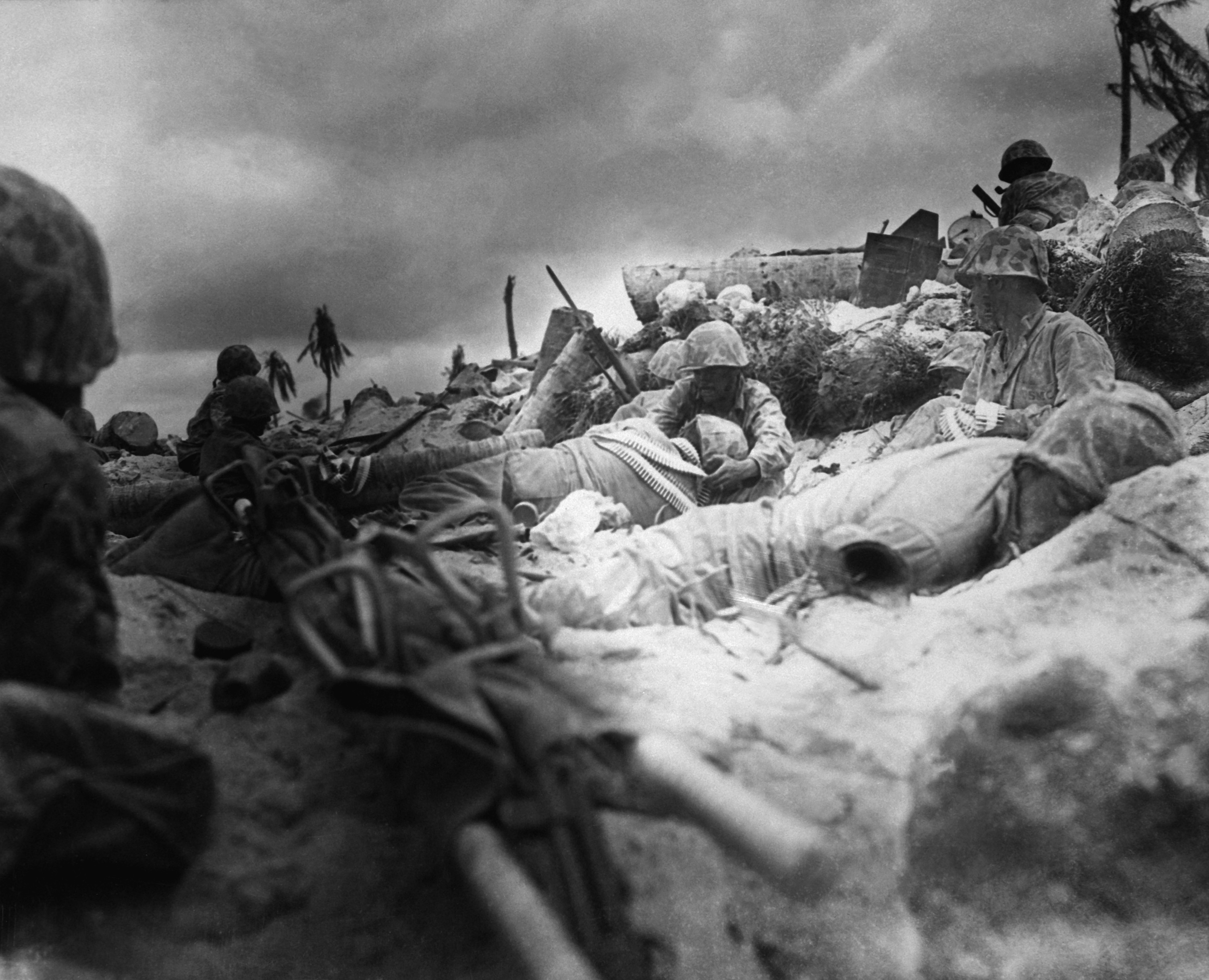 Marines take cover behind a sea wall on Red Beach #3, Tarawa. VIRIN: HD-SN-99-02572